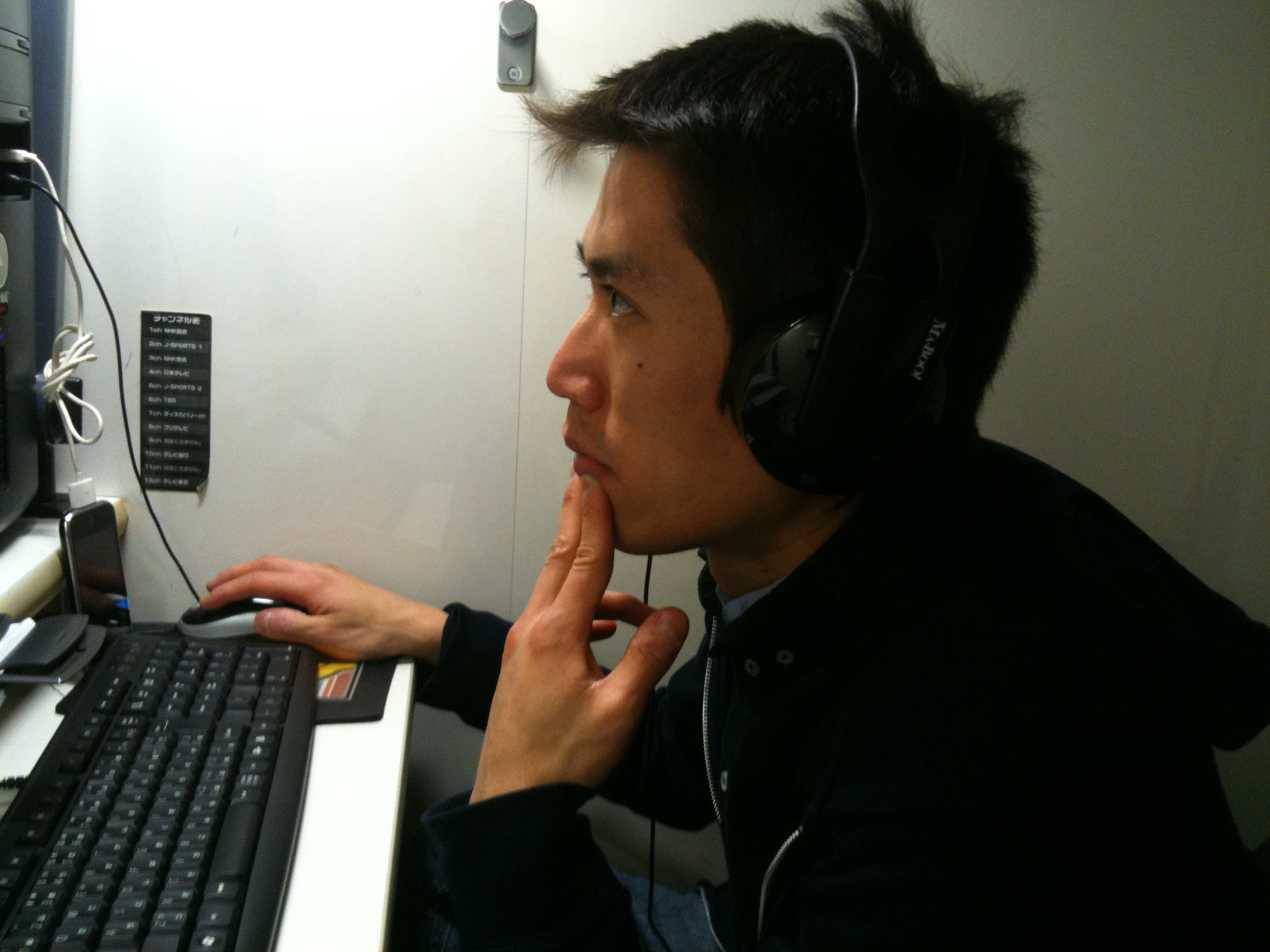 Tao Lin in 2010